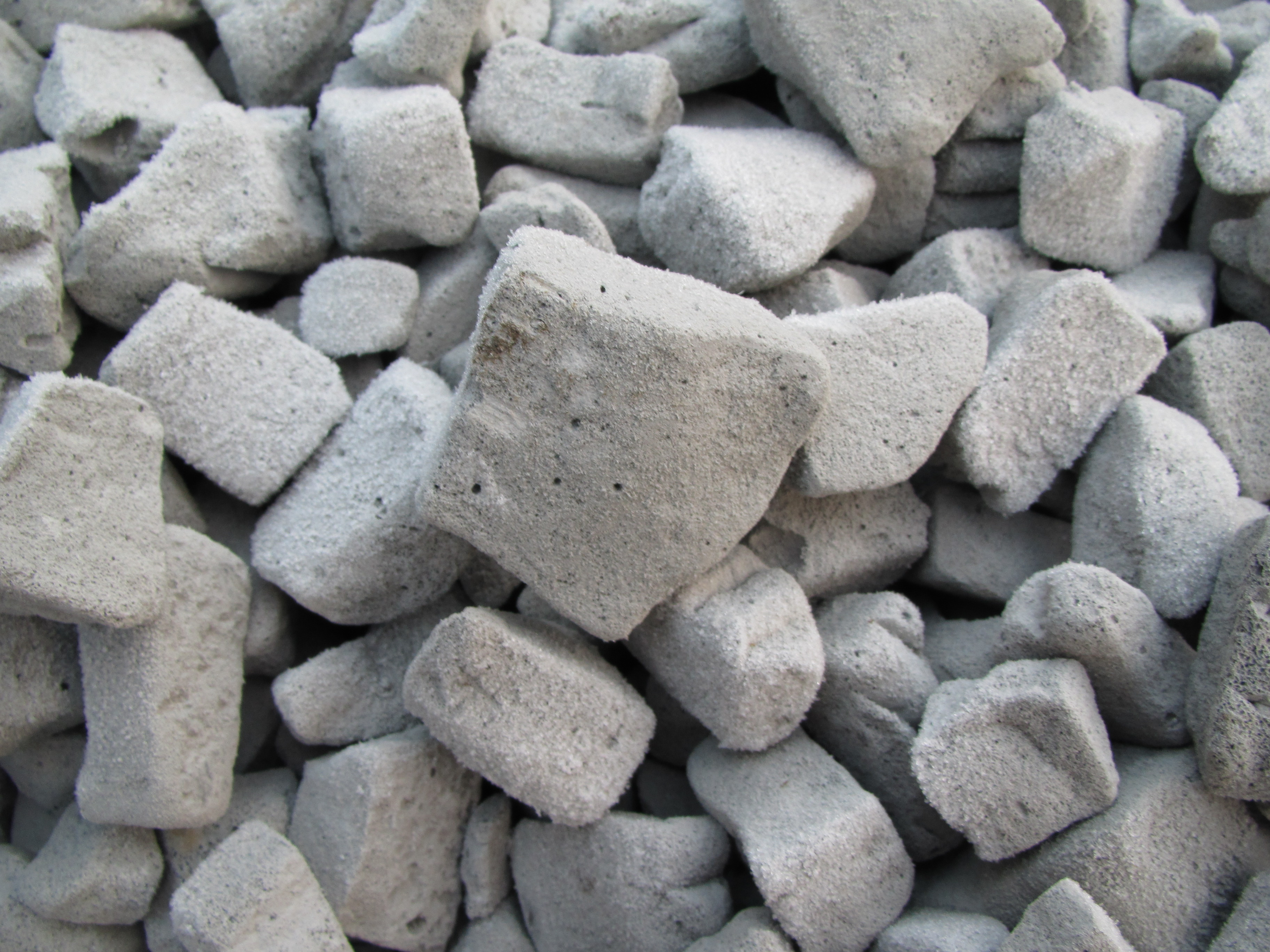 Foamglas